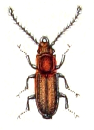 Placonotus testaceus, from Calwer's Käferbuch, Table 15, Picture 11. Taxonomy was updated to 2008, using mostly the sites Fauna Europaea and BioLib. Please contact Sarefo if the determination is wrong!